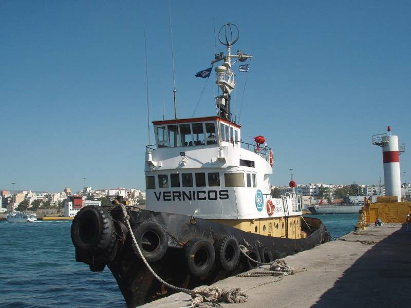 Tug boat Agia Varvara at Krakari Jetty, Piraeus, Greece IMO number: 7362732